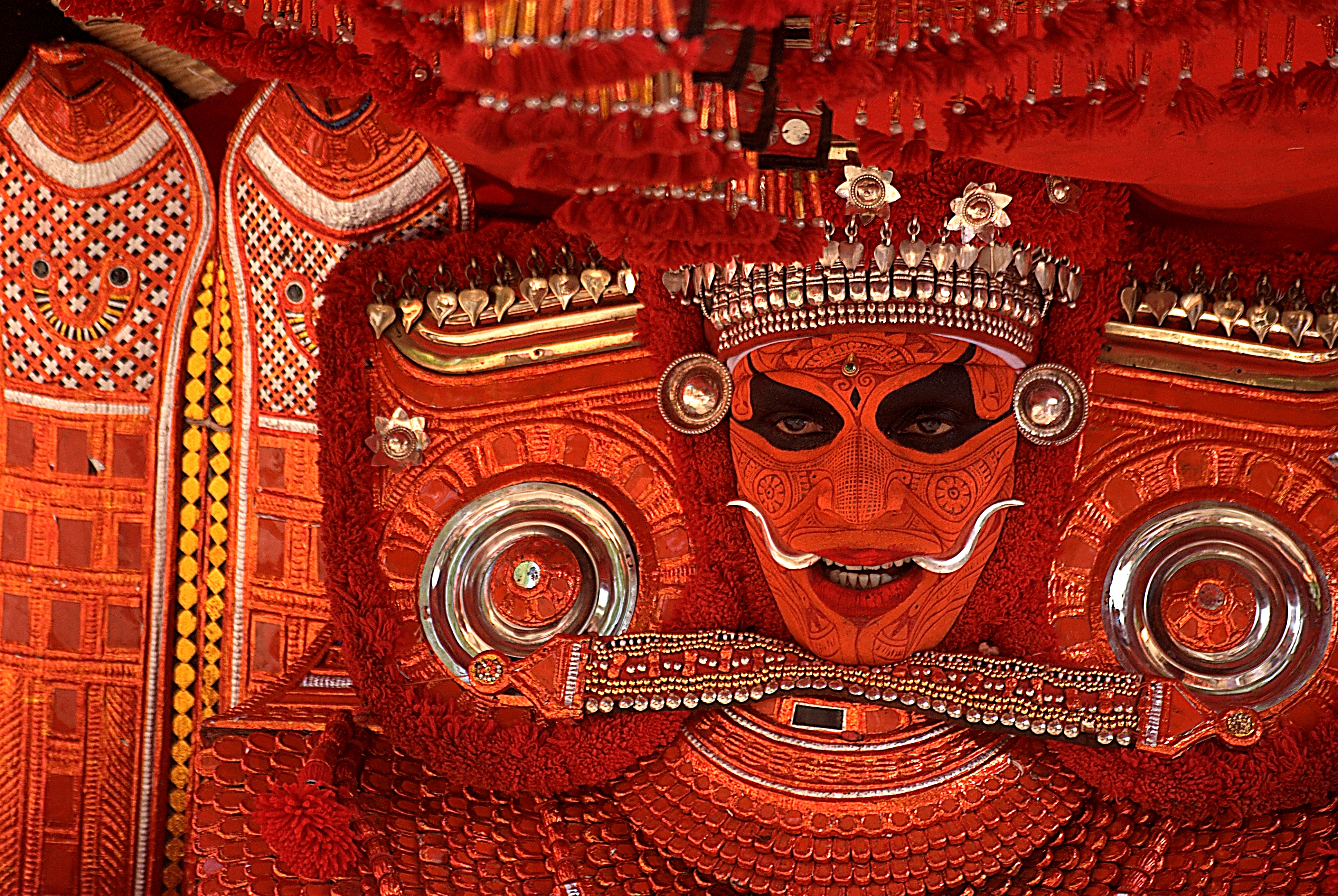 Theyyam or Theyyattam is a popular Hindu ritual of worship in North Kerala state, India, predominant in the Kolathunadu area (consisting of present-day Kannur and Kasargod districts). As a living cult with several thousand-year-old traditions, rituals and customs, it embraces almost all the castes and classes of the Hindu religion in this region. The performers of Theyyam belong to the indigenous tribal community, and have an important position in Theyyam. This is unique, since only in Kerala, do both the upper-caste Brahmins and lower-caste tribals share an important position in a major form of worship. The term Theyyam is a corrupt form of Devam or God. People of these districts consider Theyyam itself as a God and they seek blessings from this Theyyam.A similar custom is followed in the Tulu Nadu region of neighbouring Karnataka known as Bhuta Kola This Theyyam Performance is from Muchilott Kavu, Payyanur. The Legend of a Reincarnation of Lord Vishnu as a goddess. This goddess, "Padar Kulangara Bhagavati" is worshipped as fertility goddess.